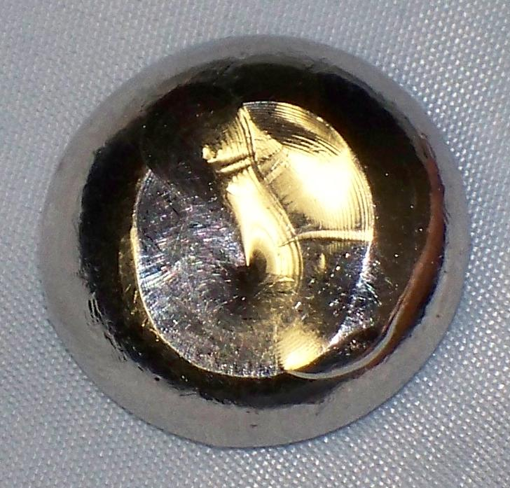 1 troy oz. arc-melted button of 99.99% iridium